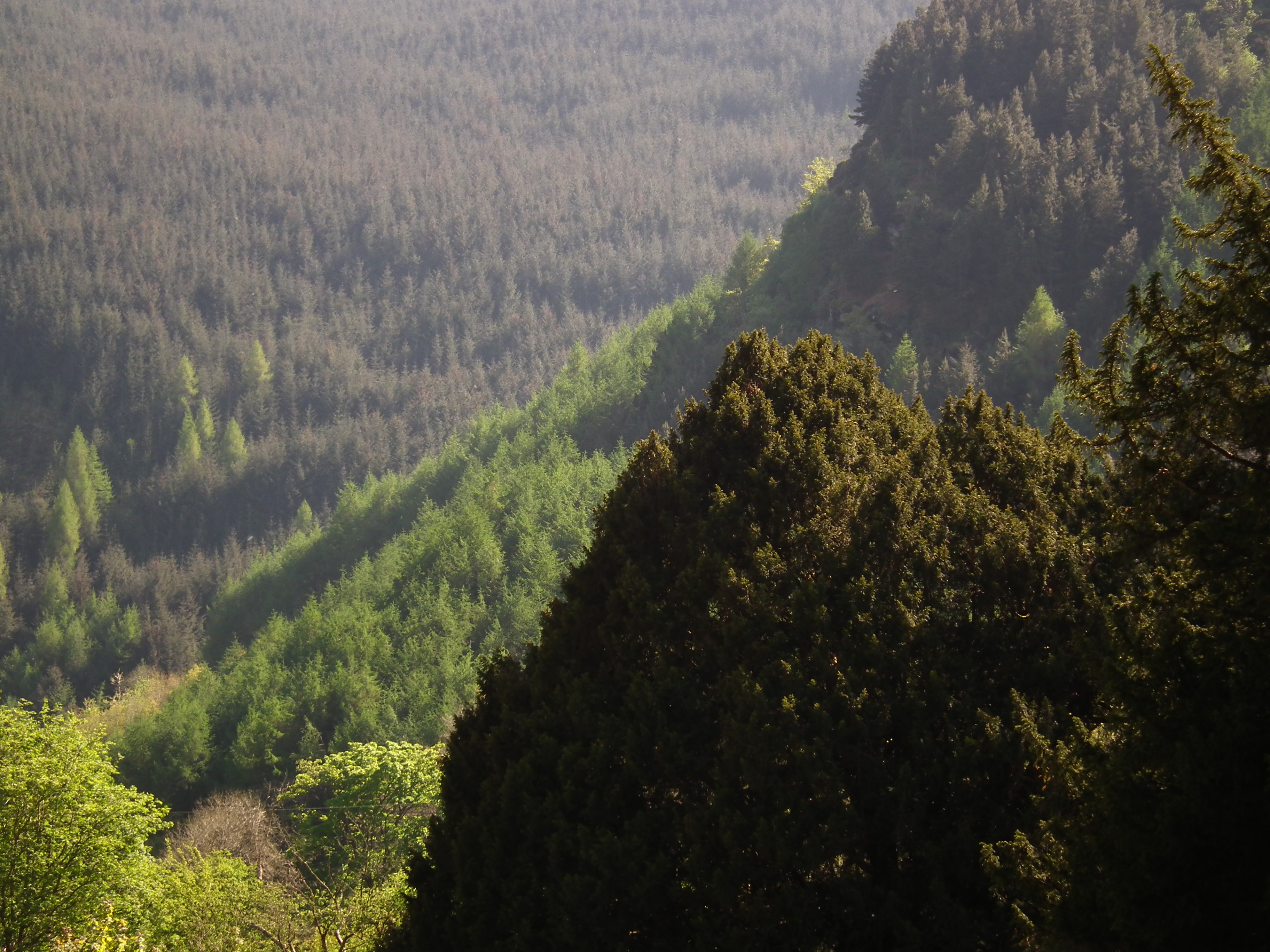 woodland, Cwm Pennant, Powys, Wales